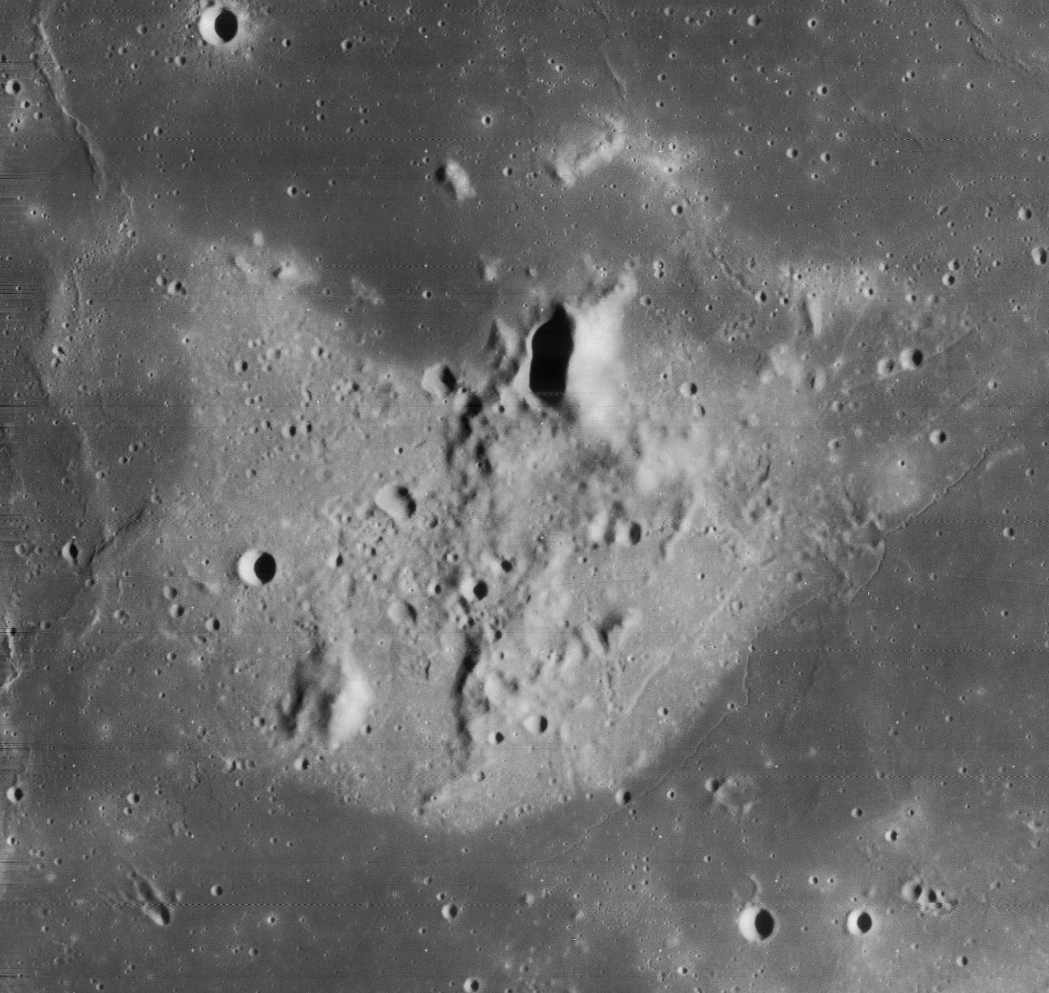 "The helmet" (informal term used by Apollo 16 crew), a highland mass in southern Oceanus Procellarum, on the moon.